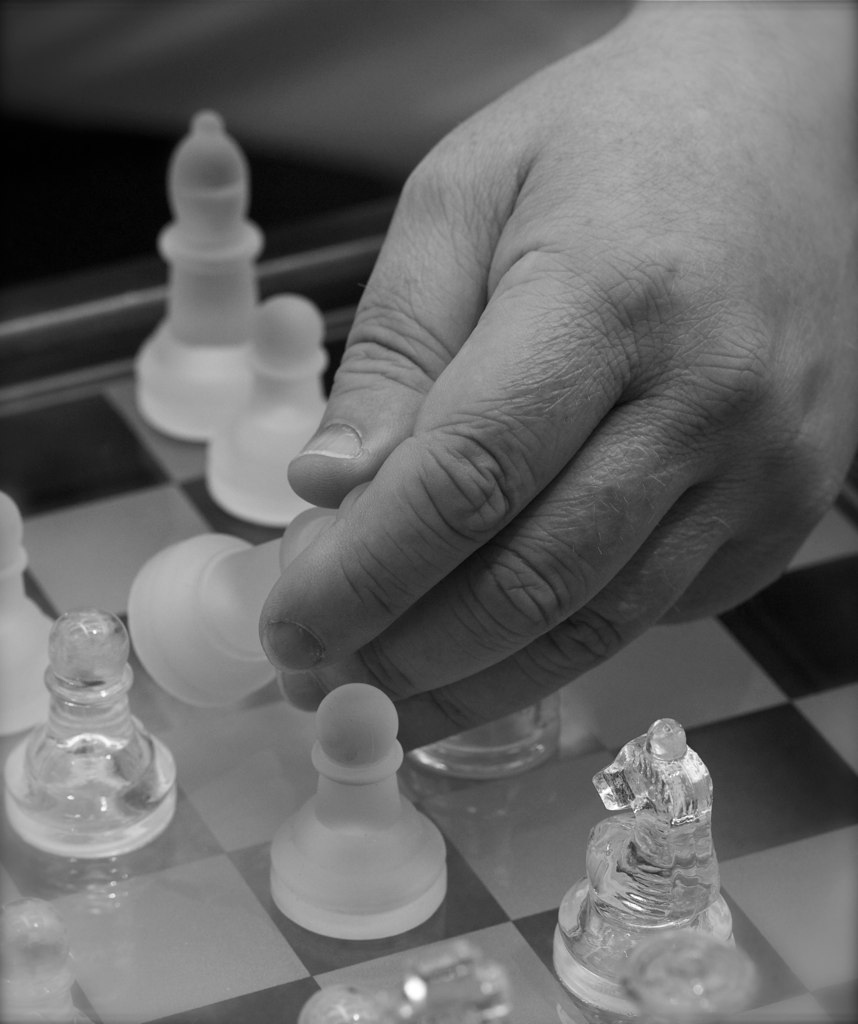 I noticed that pictures of hands doing something always seemed to look better than just trying to place them artistically. So, the chess set was dusted off.